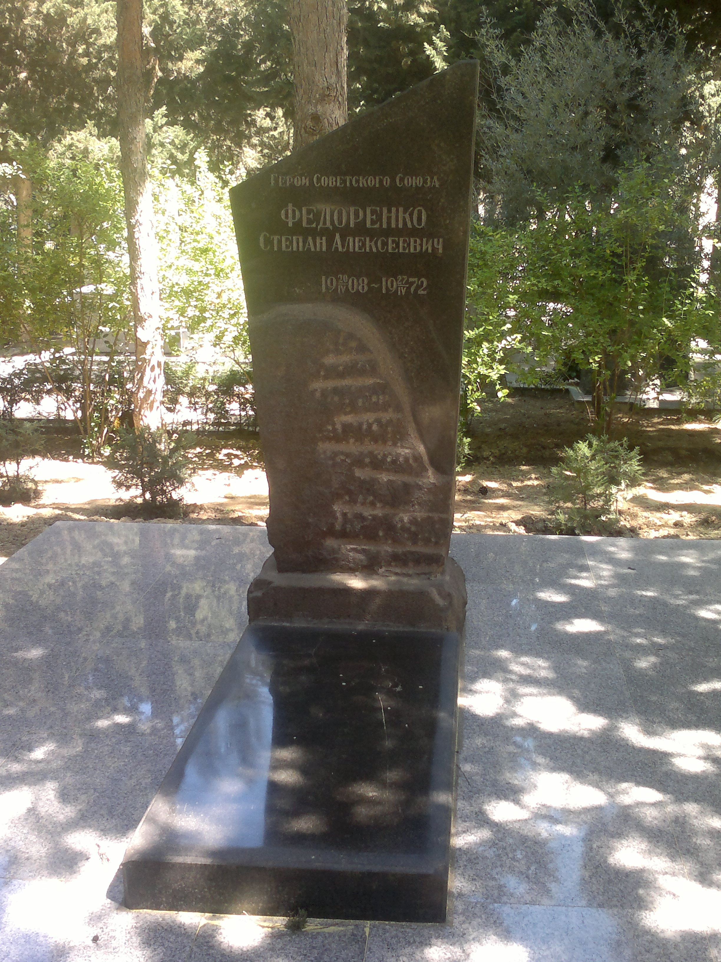 Burial of Stepan Fedorenko at Alley of Honor (Azerbaijan)